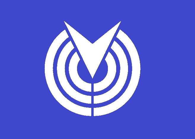 Flag of Minamiizu Shizuoka